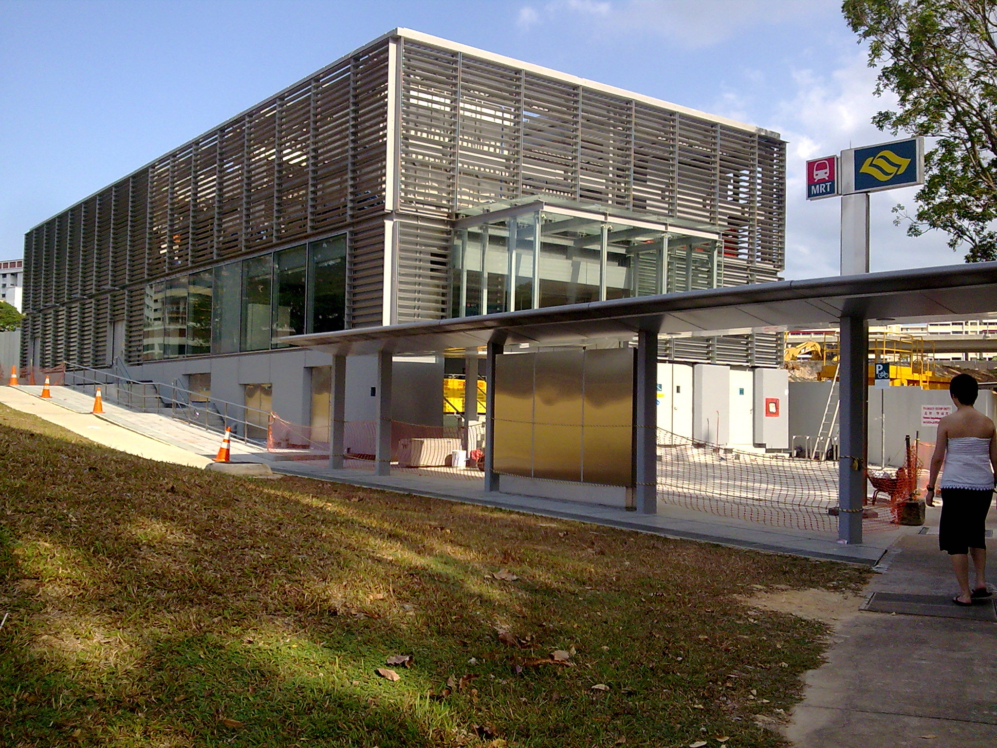 New station exit of Serangoon Station on the Circle Line.